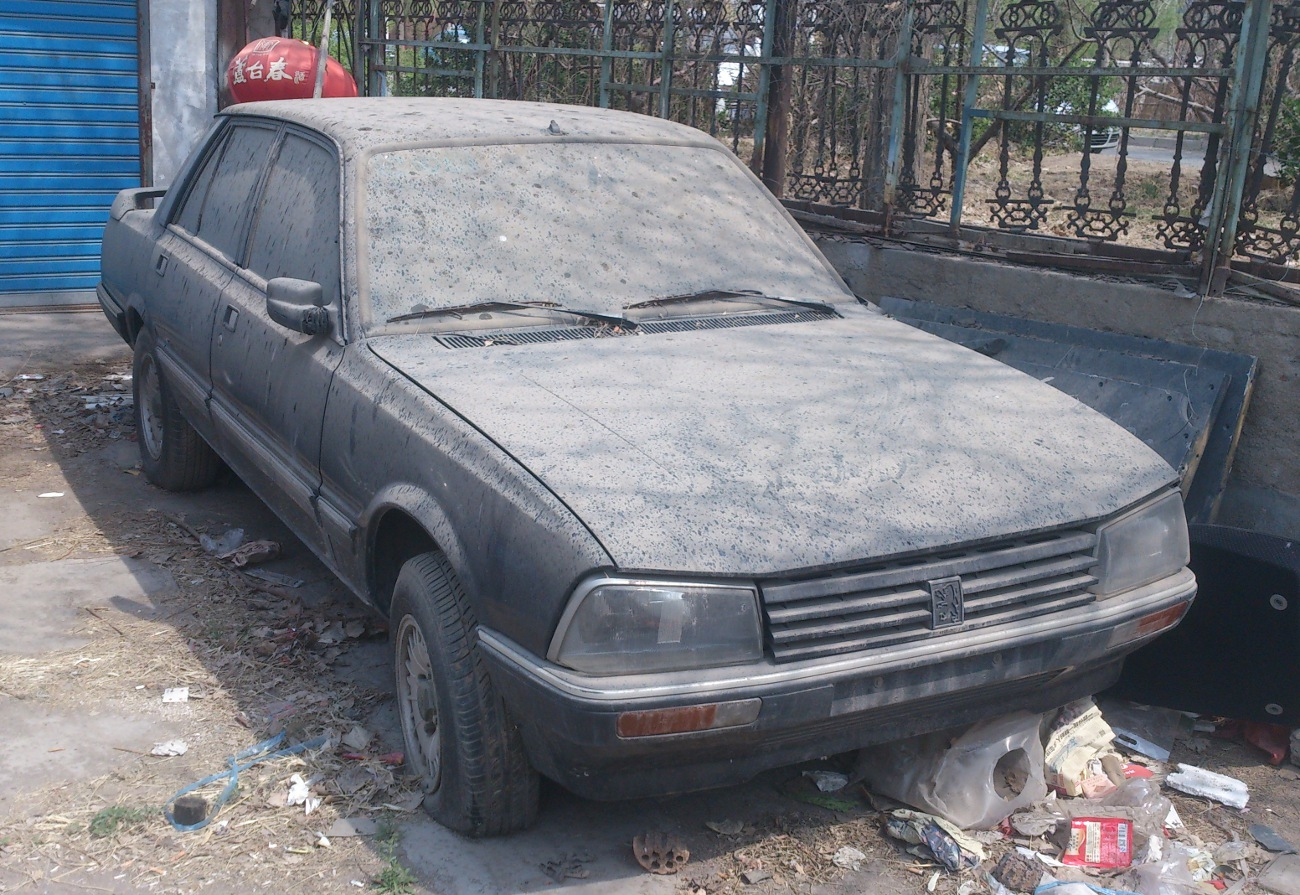 Peugeot 505 photographed in Tianjin, China.